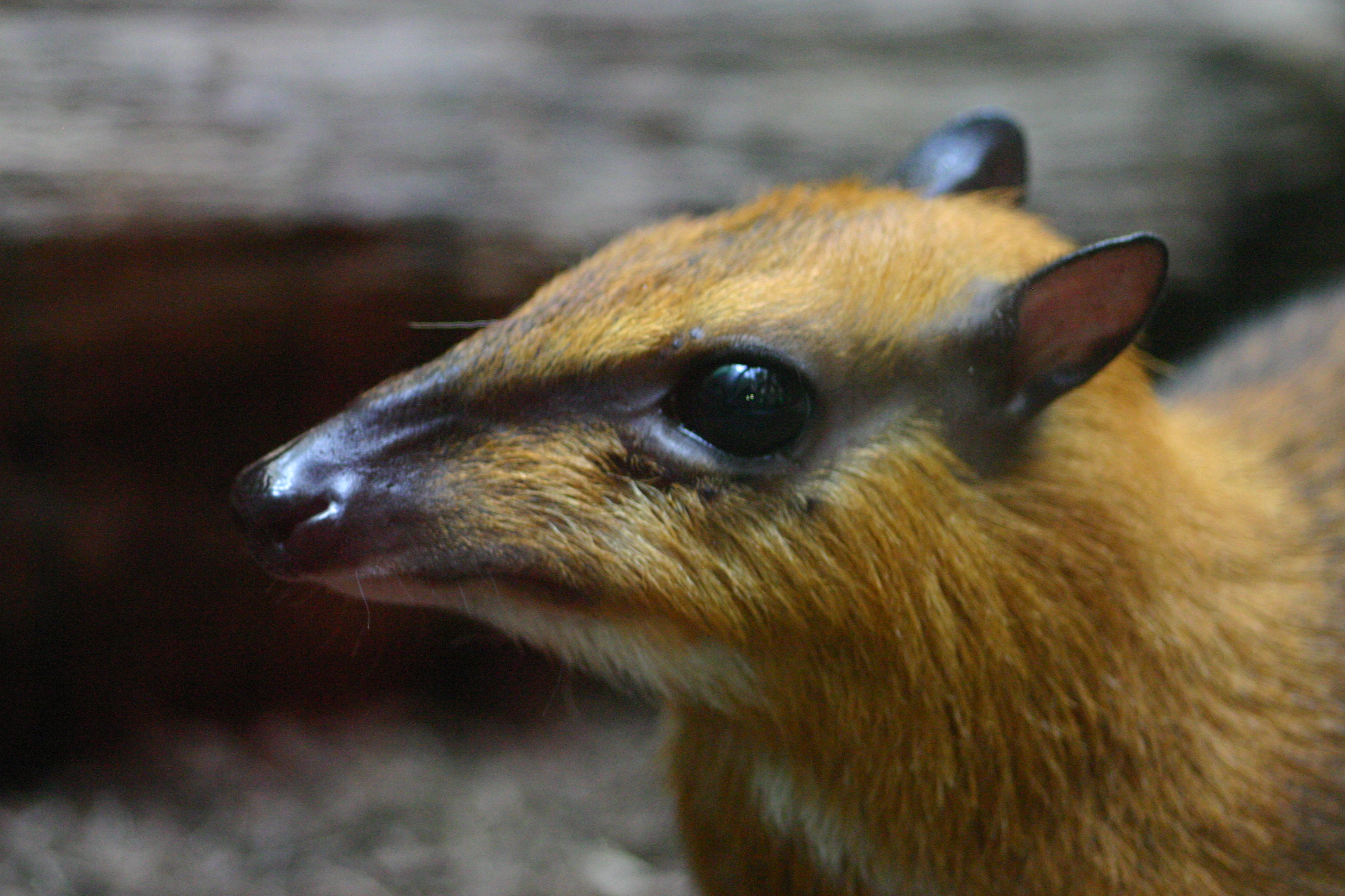 Tragulus napu - Mouse Deer, Brian Gratwicke